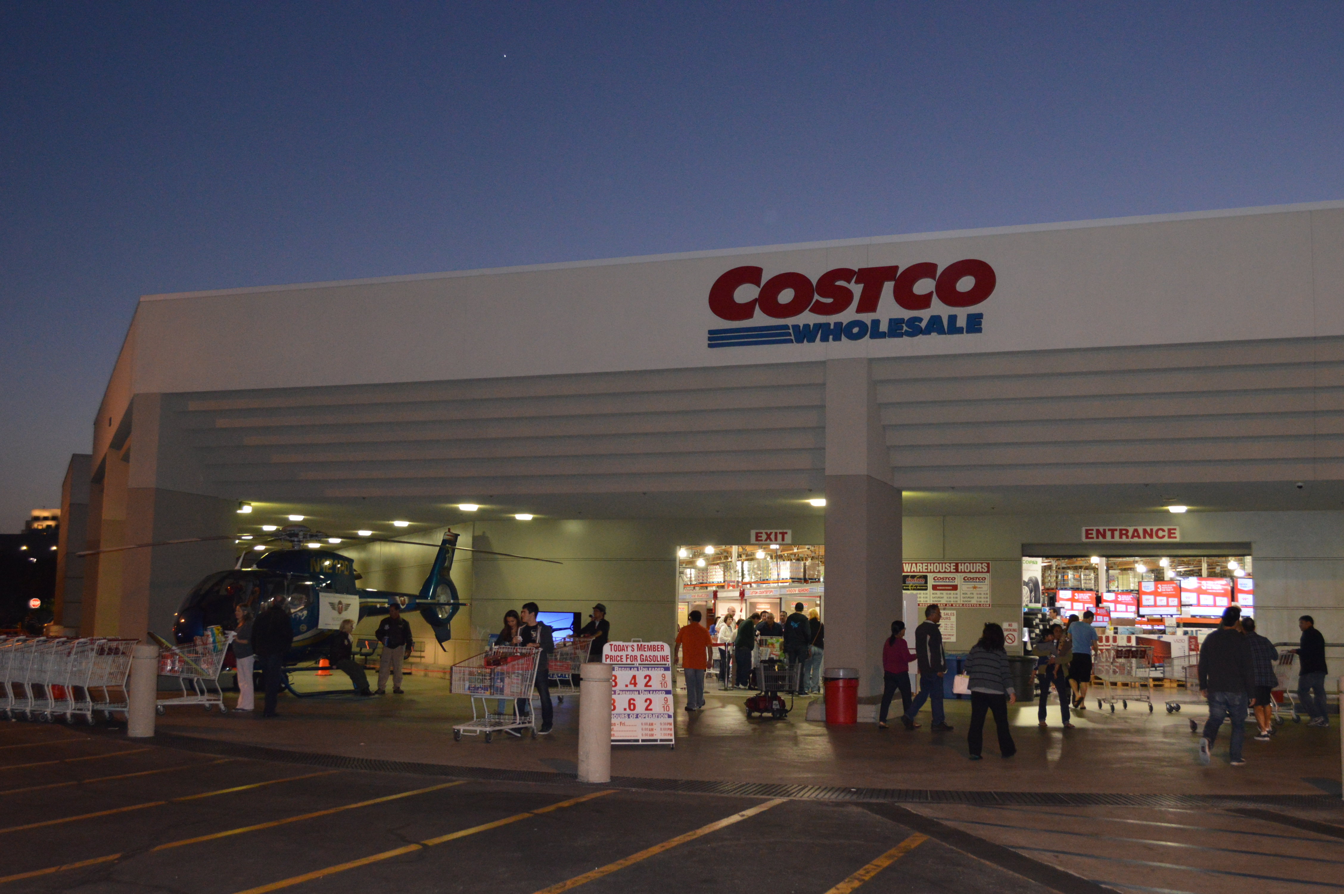 Costco in Irvine, California, U.S.A. during an OC Helicopters promotion.